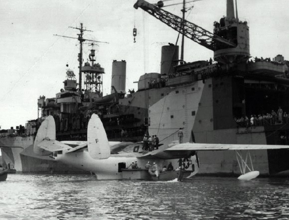 A U.S. Navy Martin PBM-3 Mariner of patrol bomber squadron VPB-210 is being prepared for hoisting aboard the seaplane tender USS Albemarle (AV-5) at Guantanamo Bay, Cuba, 5 January 1945.